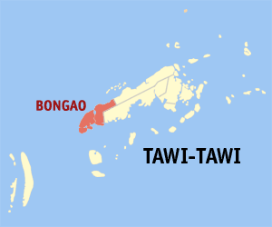 Map of the Tawi-Tawi showing the location of Bongao